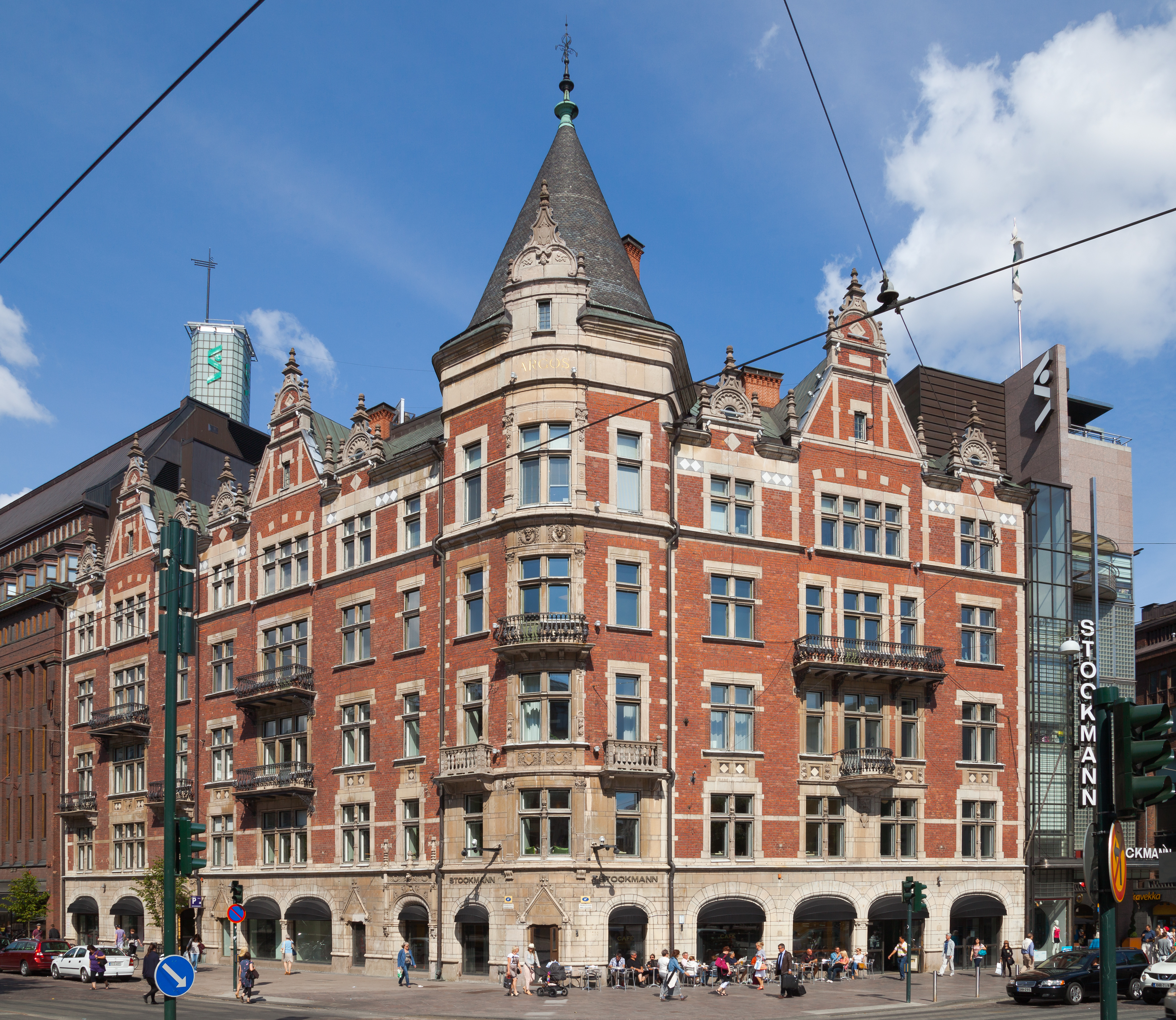 Stockmann mall, Helsinki, Finland